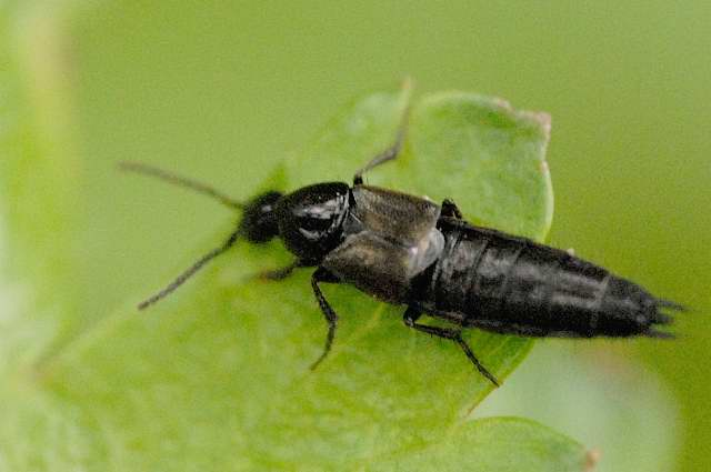 Philonthus coprophilus from Commanster, Belgian High Ardennes .